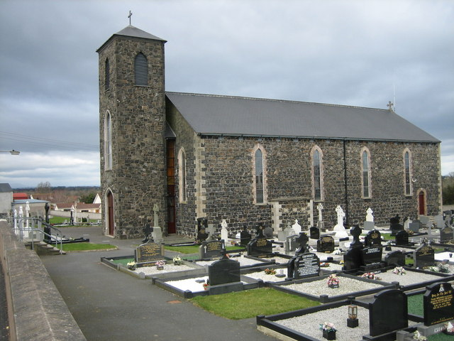 St Patrick's Church, Aghacommon, (Derrymacash Chapel) - Seagoe Parish, Roman Catholic Church. In the townland of Derrymacash.